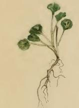 Stainton’s Natural History of the Tineina (1855–1873): Bucculatrix nigricomella plant of Chrysanthemum leucanthemum with mined leaves